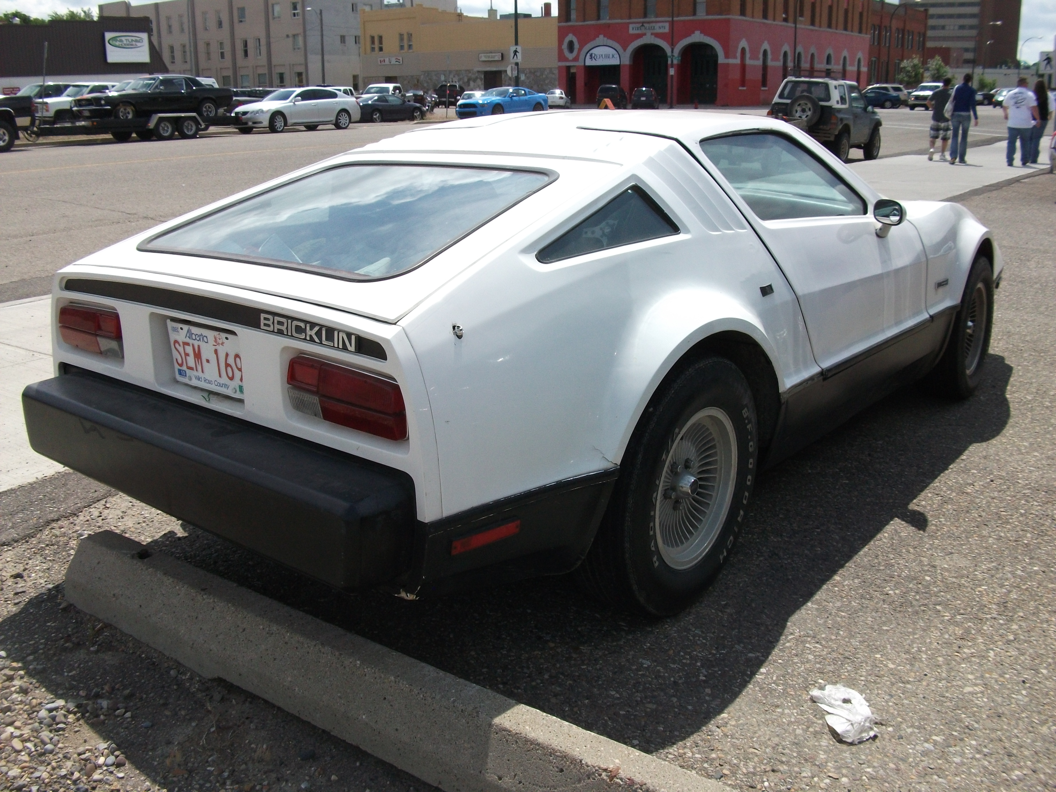 Canadian built Bricklin SV1 in the parking lot at the show and shine